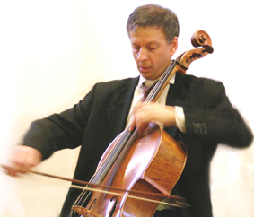 David Shamban during a performance in Germany.